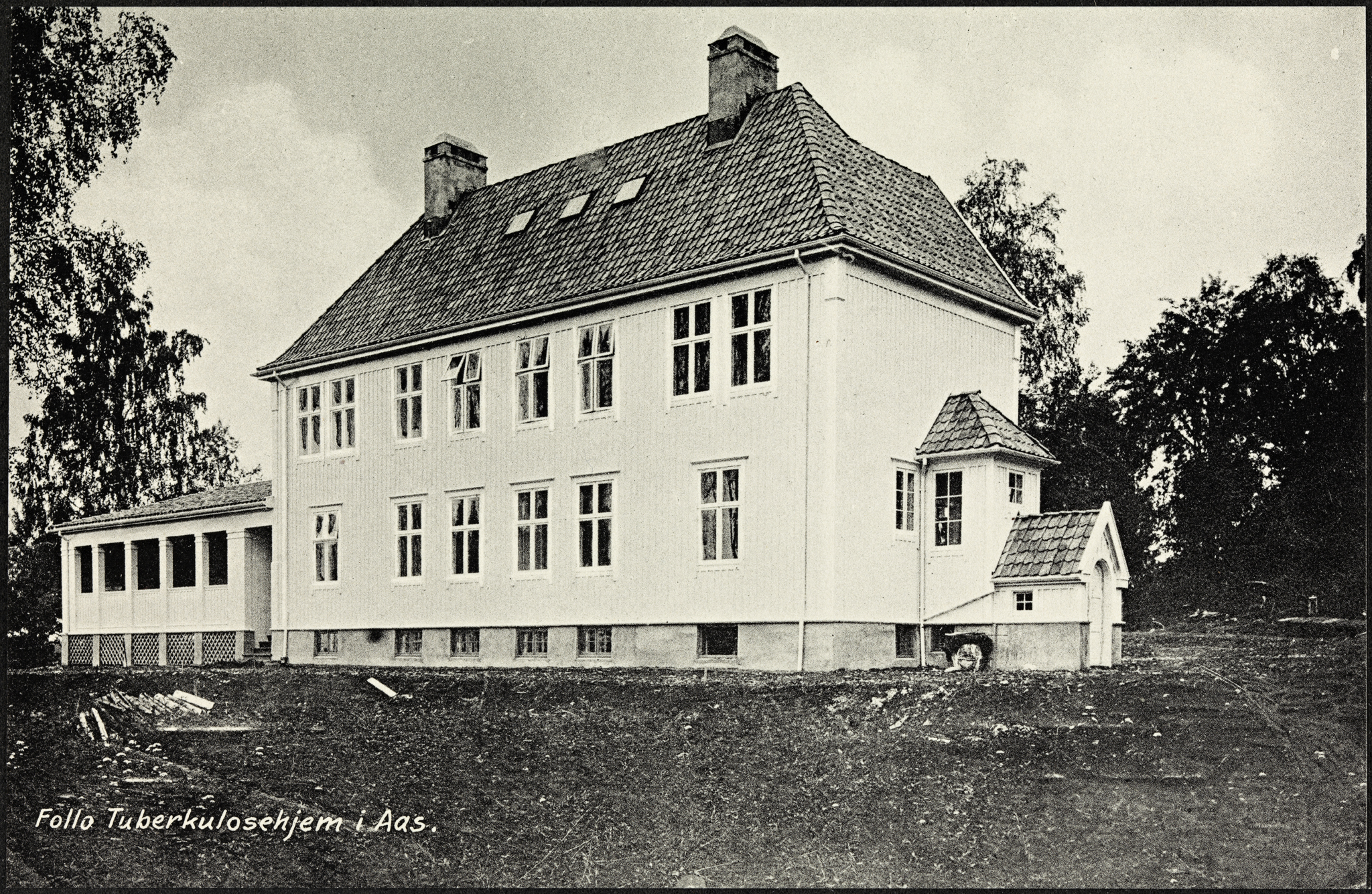 Tittel / Title: Follo Tuberkulosehjem i Aas Motiv / Motif: Postkort. Dato / Date: 1916 Fotograf / Photographer: ukjent / unknown Utgiver / Publisher: ukjent / unknown Sted / Place: Akershus, Ås Eier / Owner Institution: Nasjonalbiblioteket / National Library of Norway Lenke / Link: Bildesignatur / Image Number: blds_05665